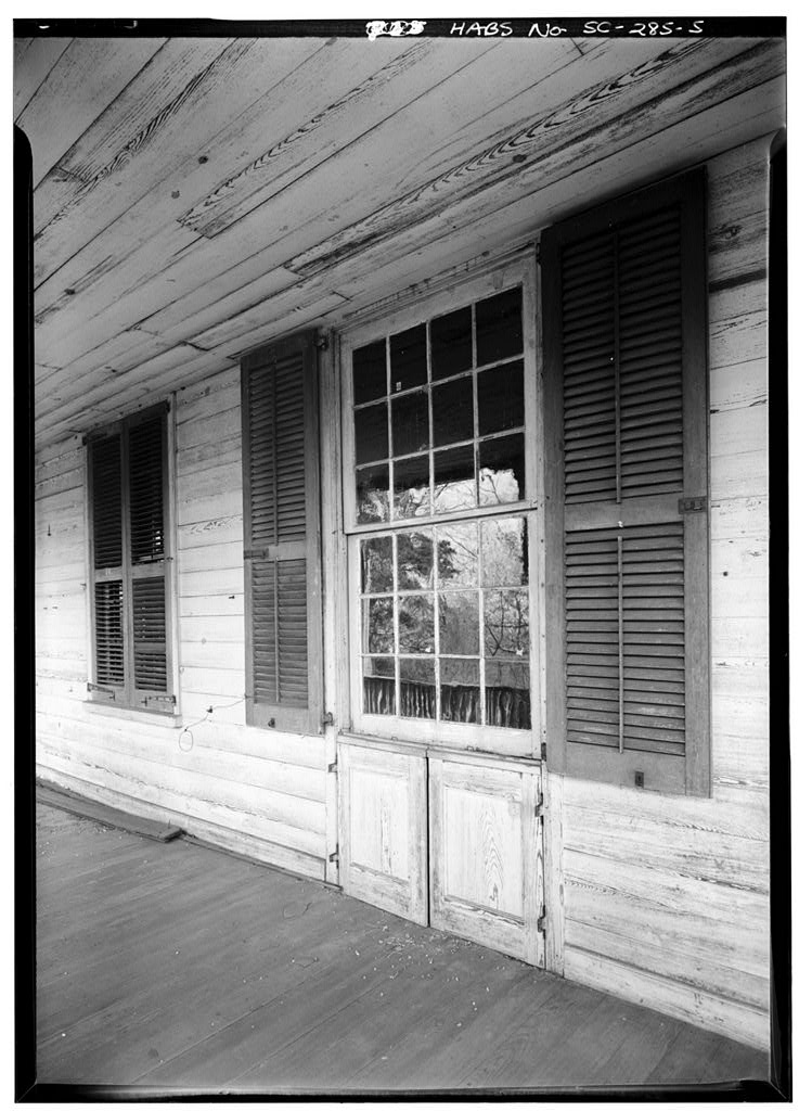 Photographic view of the south facade of Woodburn Plantation, with detail of window with hinged panels. Woodburn Plantation is located on Woodburn Road, U. S. Route 76, Pendleton vicinity, Anderson County, South Carolina.